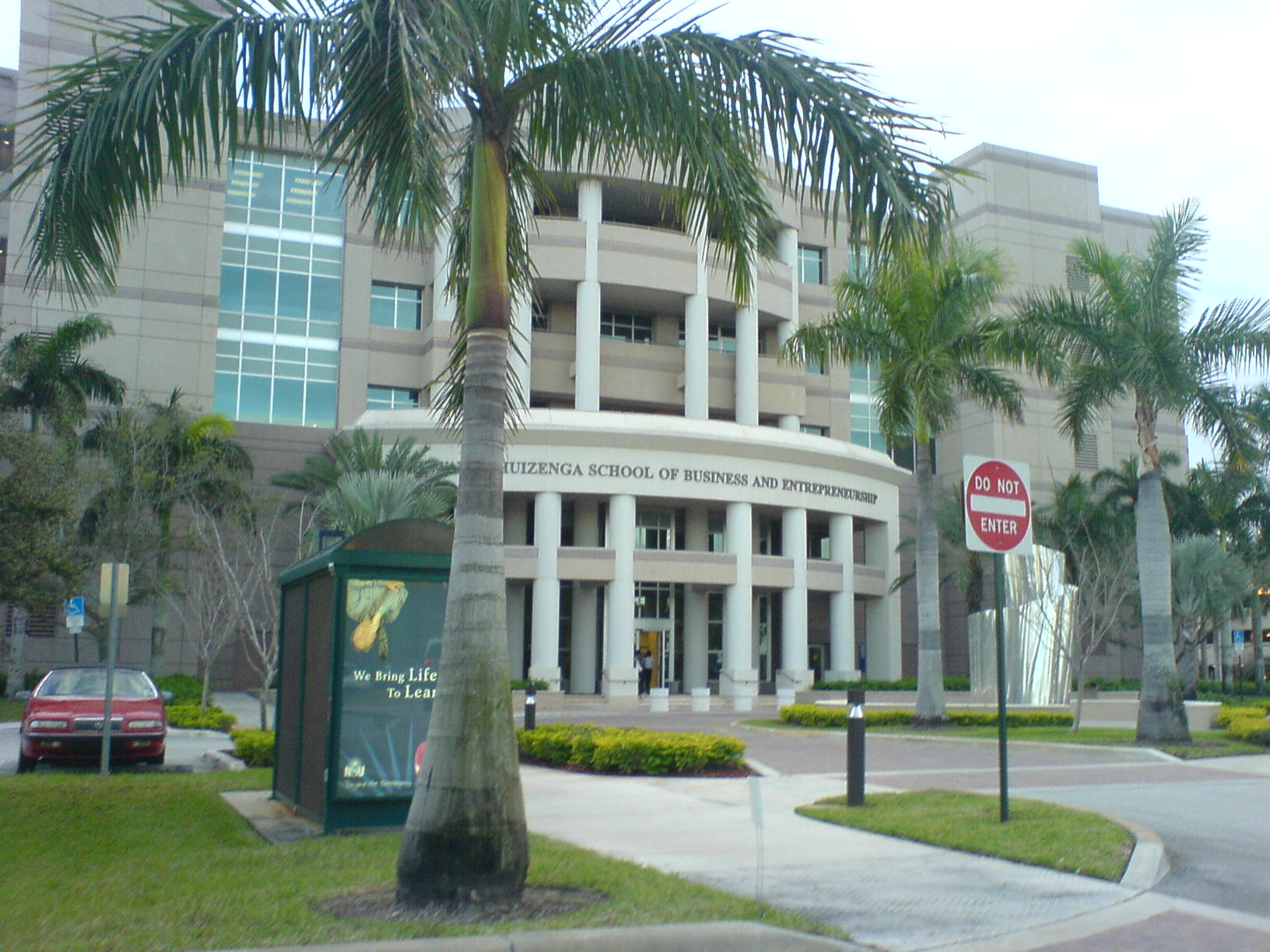 Exterior of the school (Carl DeSantis Building) Taken by User:Butnotthehippo